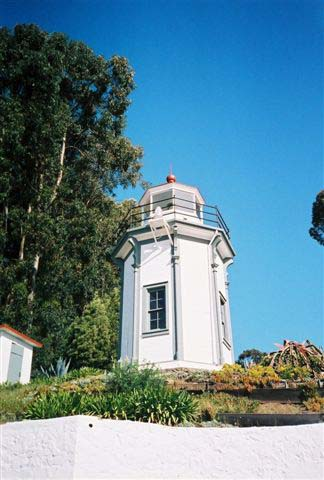 Public Domain statement here; Yerba Buena Lighthouse is a lighthouse in California, United States, in the San Francisco Bay on Yerba Buena Island, California. The Coast Guard Pacific Area Historian, Dr. David Rosen, submitted color photos from a visit in 2007.